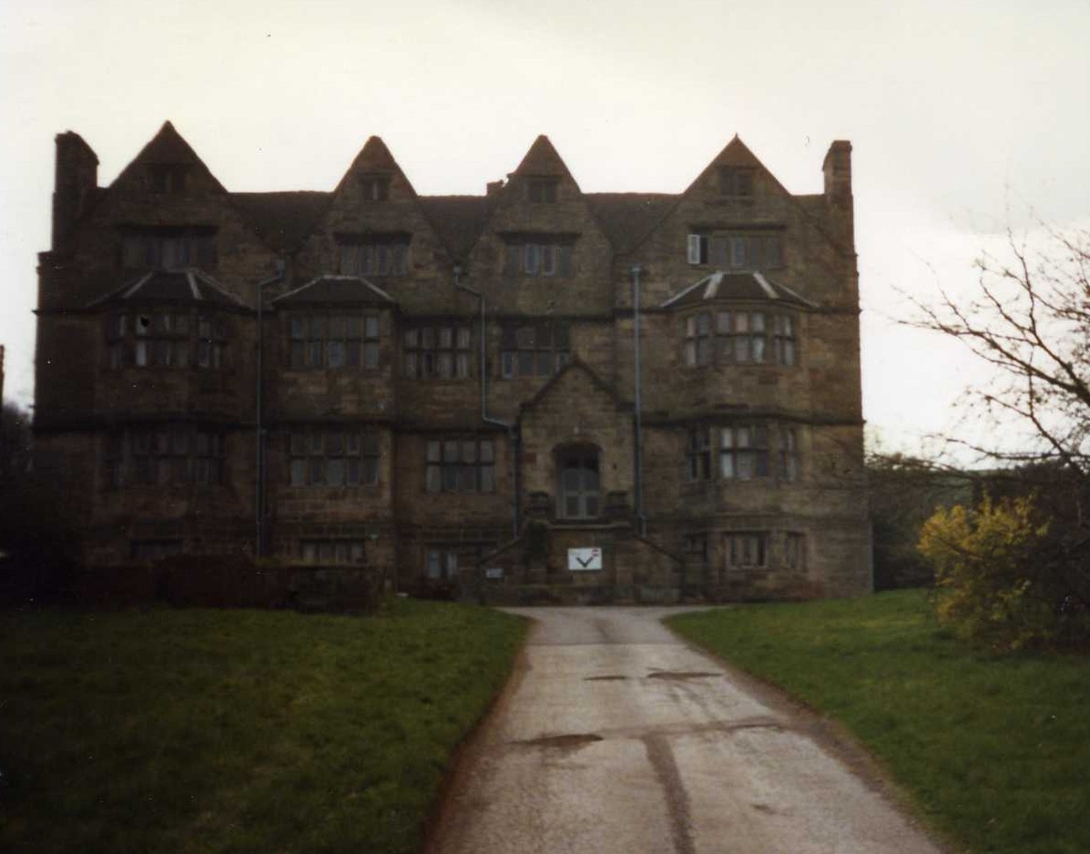 Weston Hall (Weston, Staffordshire) in April 1988 before its restoration and conversion to a restaurant.